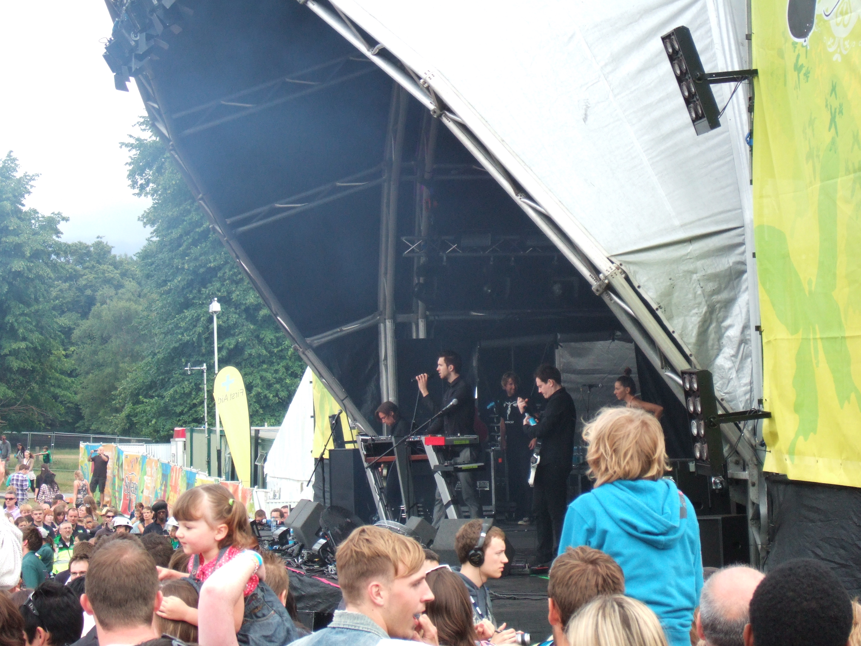 Calvin Harris - Splendour, Nottingham - July 2010